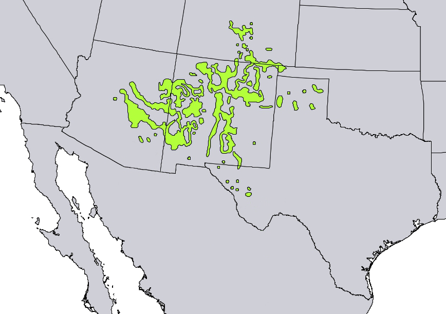 Range map of Juniperus monosperma